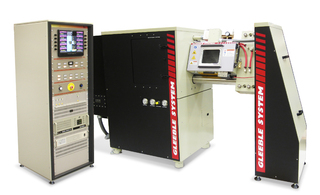 Photograph of the model 3500 Gleeble.jpg